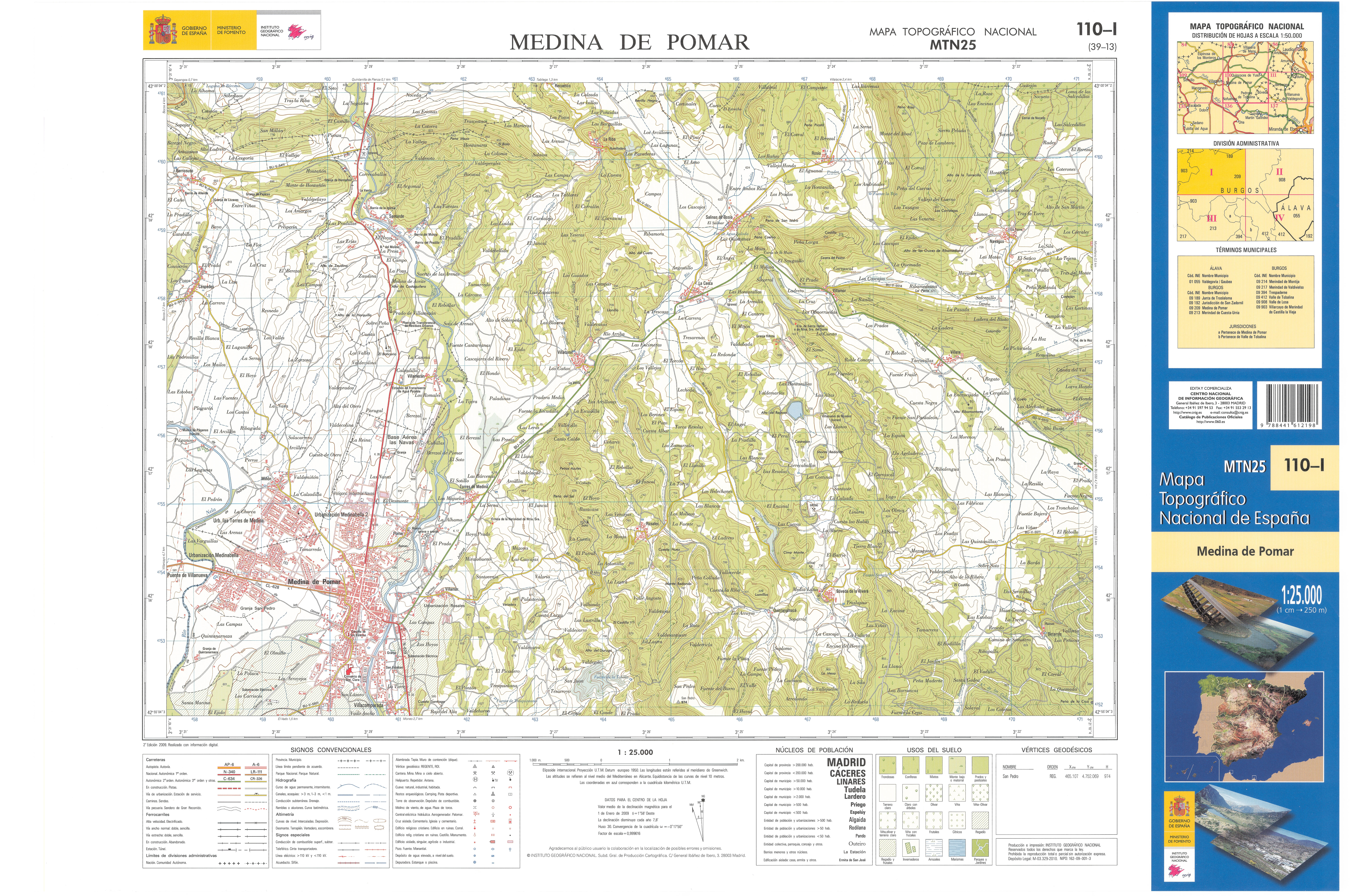 Fragment 0110c1 of the National Topographic Map of Spain in 2009 at a scale of 1:25000 printed and scanned with a resolution of 250 ppi. It shows Medina de Pomar.